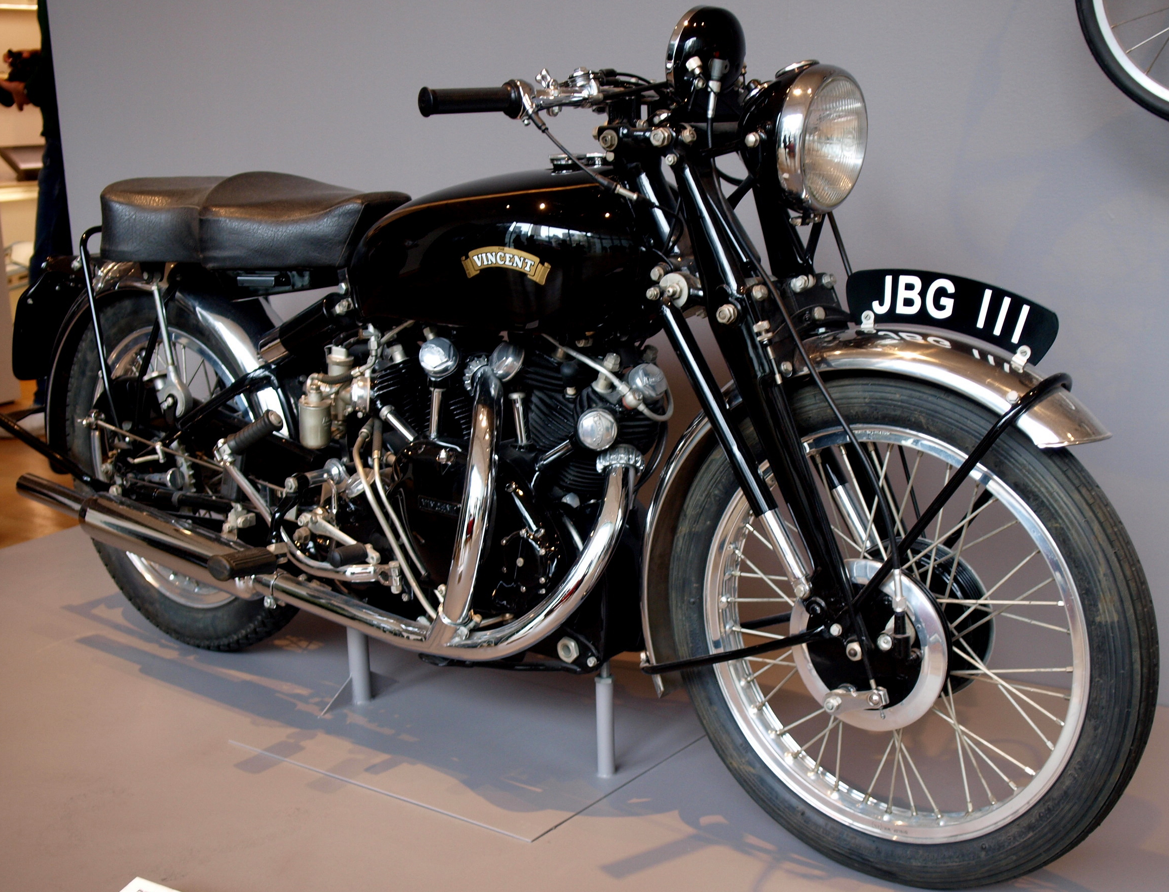 New York :: Vincent-HRD Series C Black Shadow Motorcycle